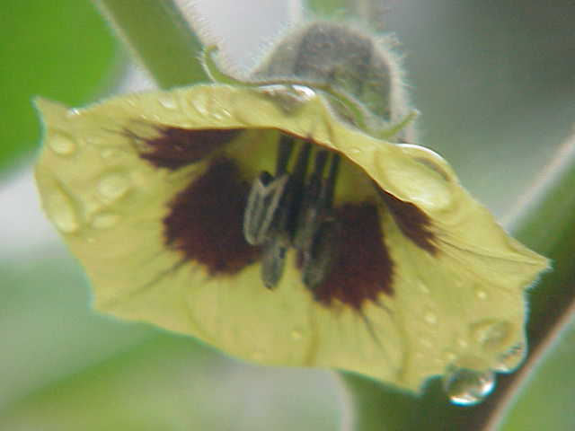 Species: Physalis peruviana Family: Solanaceae Image No. 2